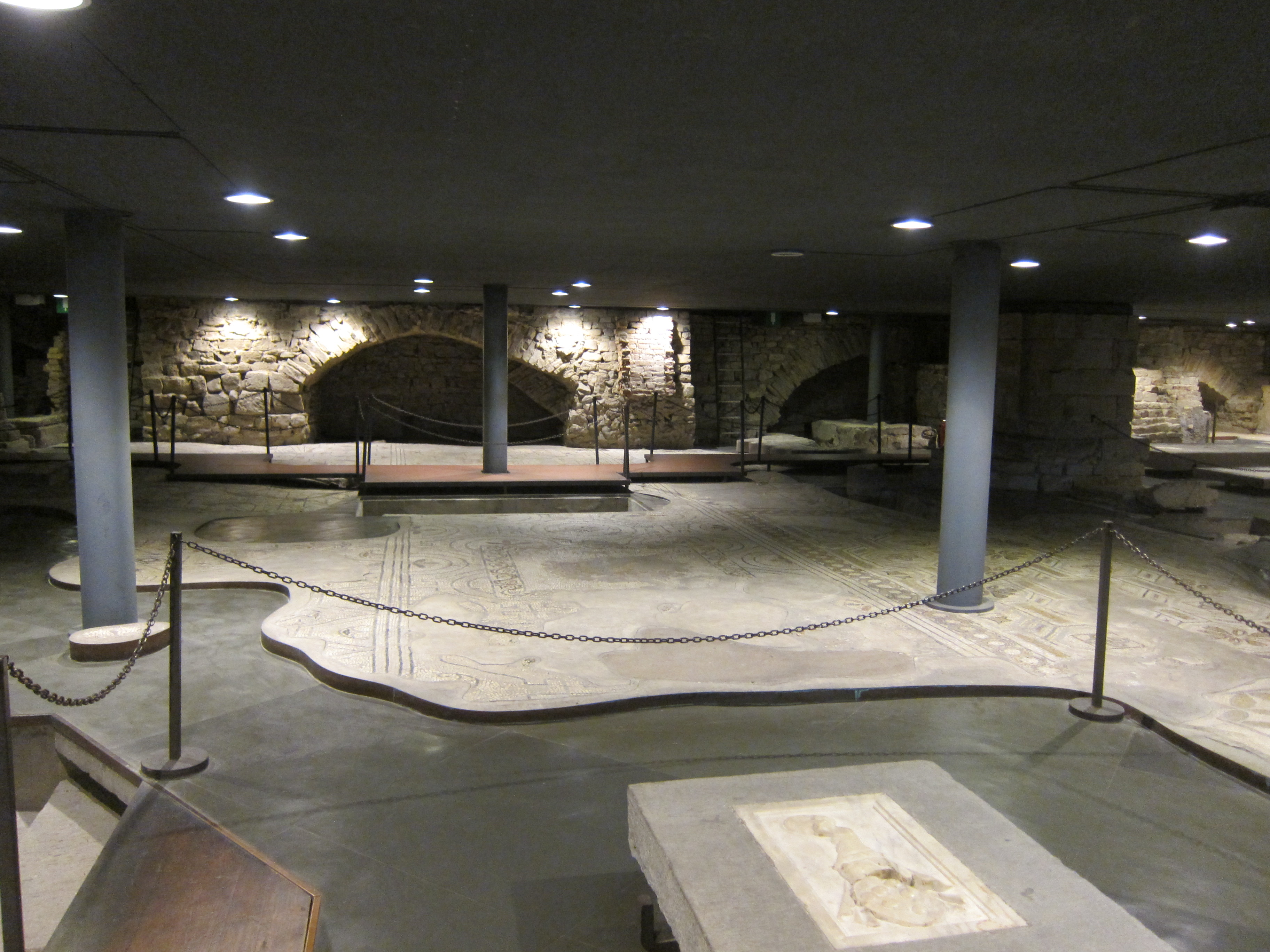 see above